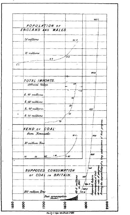 Plate from first page of book, "The Coal Question." 1865